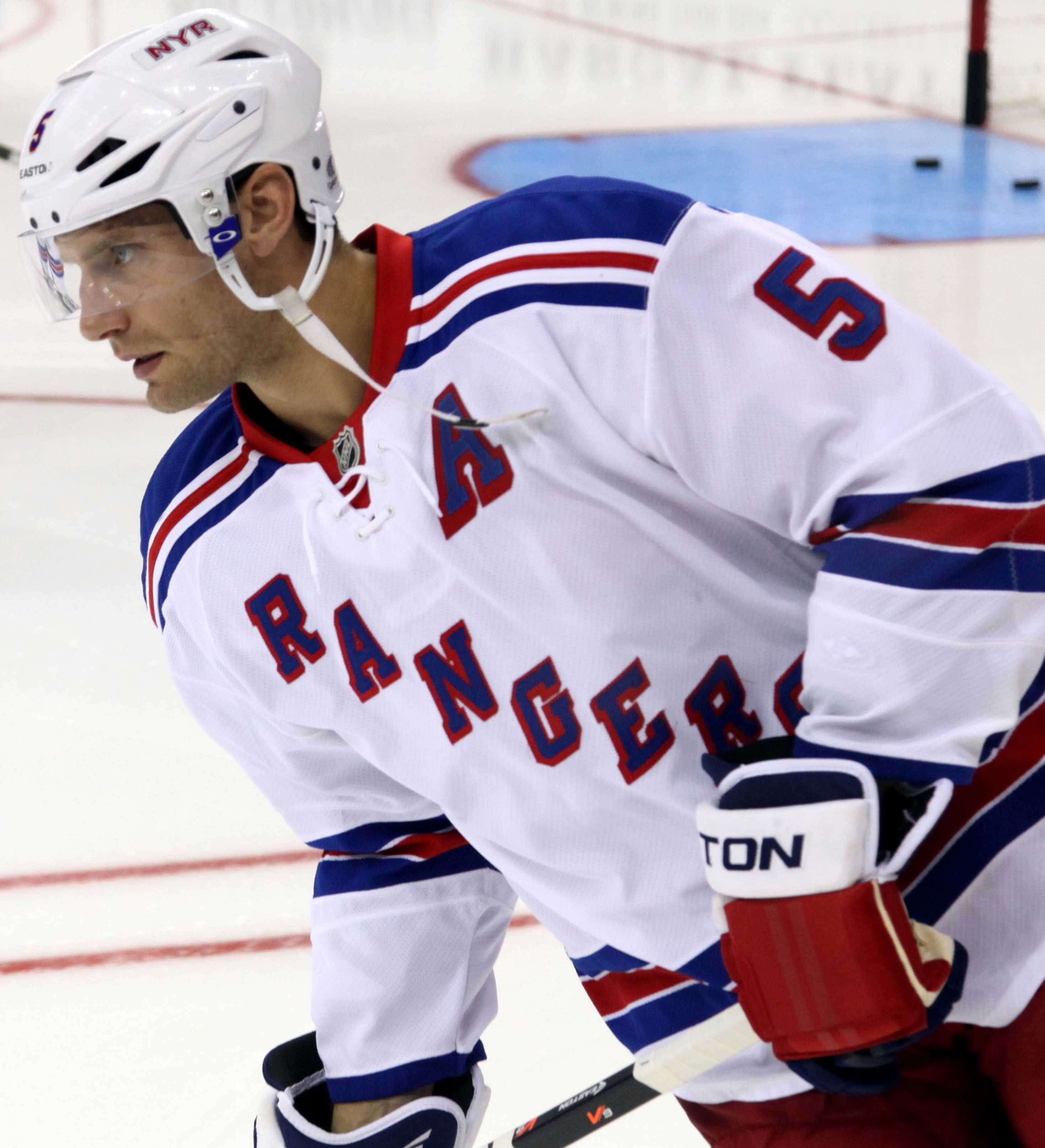 Girardi as a Ranger in October 2014.